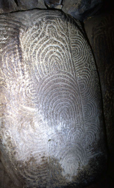 Image released as Gav2.jpg by J.E. Walkowitz onf German wikipedia.